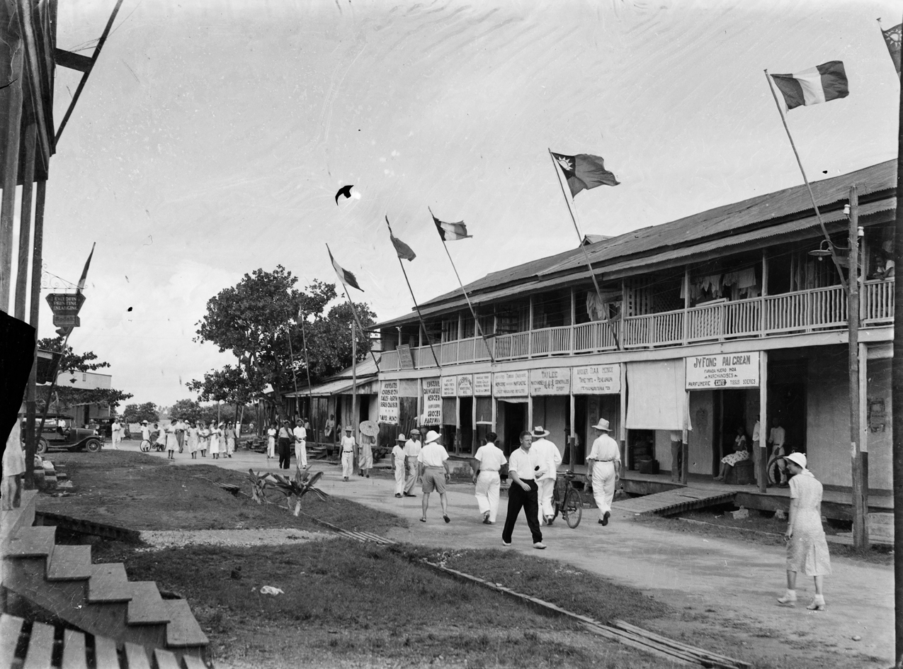 People of both European and indigenous descent proceed along a thoroughfare beside storefronts. Many signs of the stores are legible, written in French and indigenous language. Flags fly above the stores.